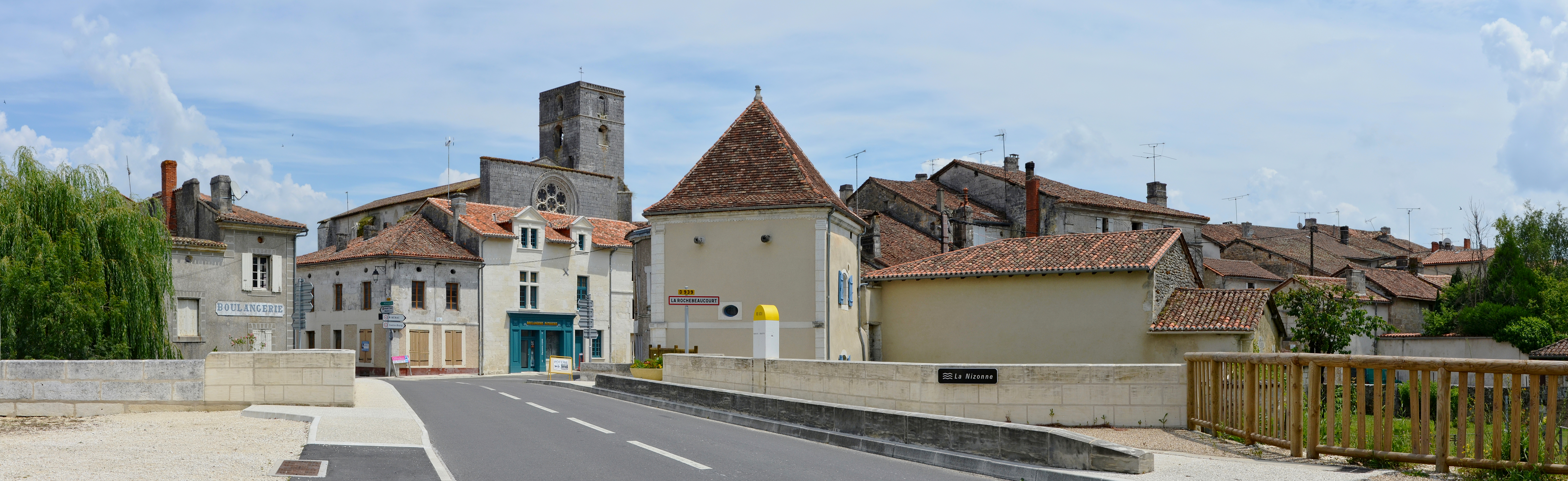 Bridge over the Nizonne river and entrance of the village, La Rochebeaucourt-et-Argentine, Dordogne, France.